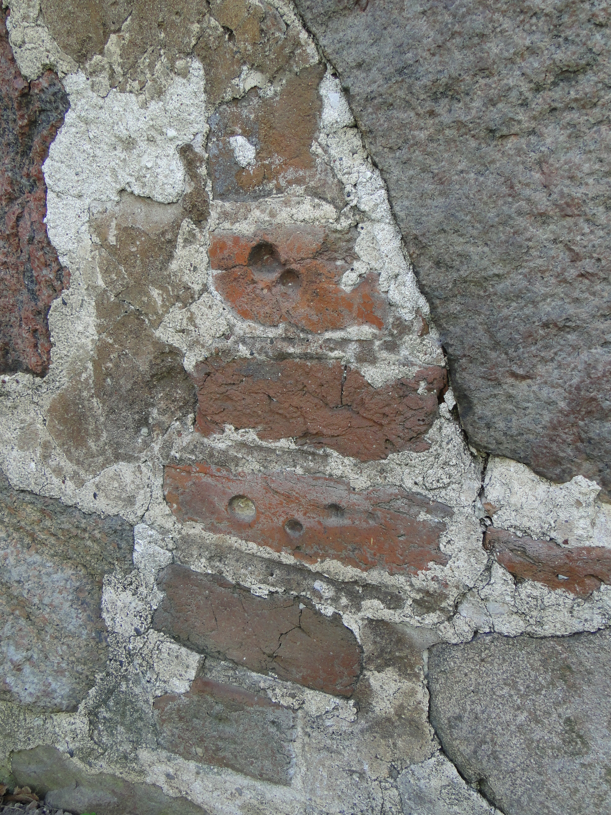 Church in Ruest, district Parchim, Mecklenburg-Vorpommern, Germany